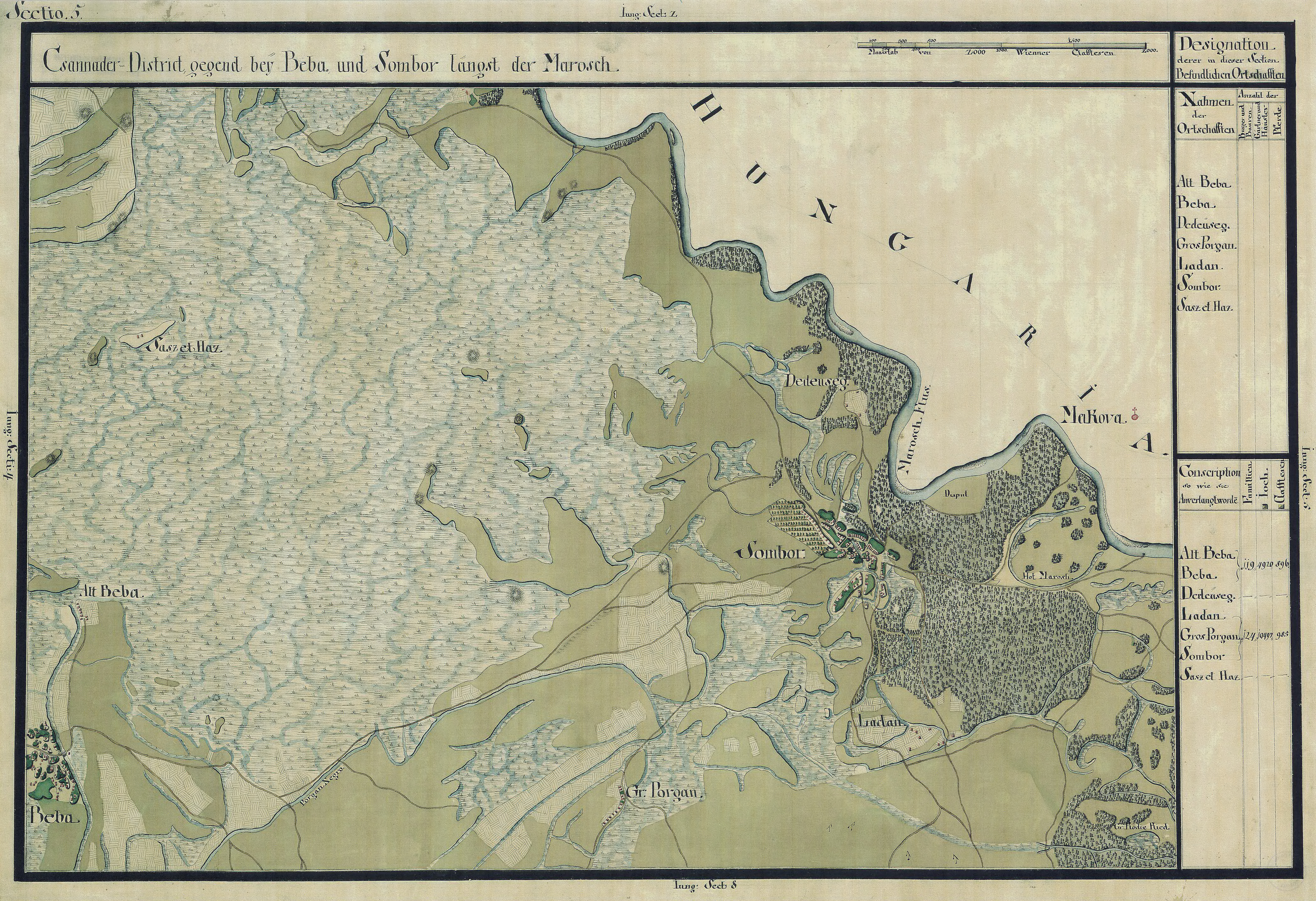 The Banat region in the cadastral maps: Josephinische Landesaufnahme, 1769-72. Josephinische Landaufnahme pg005